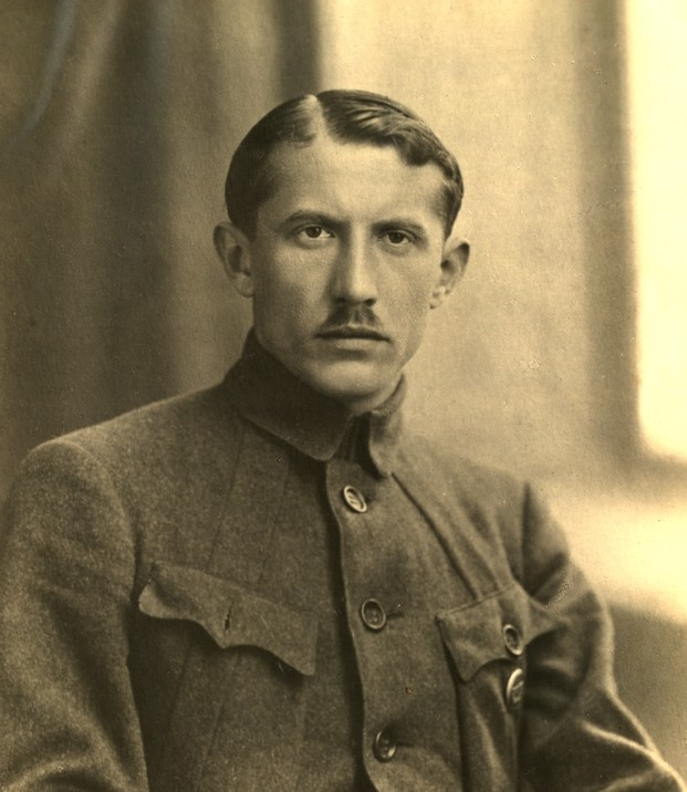 Yevhen Konovalets.